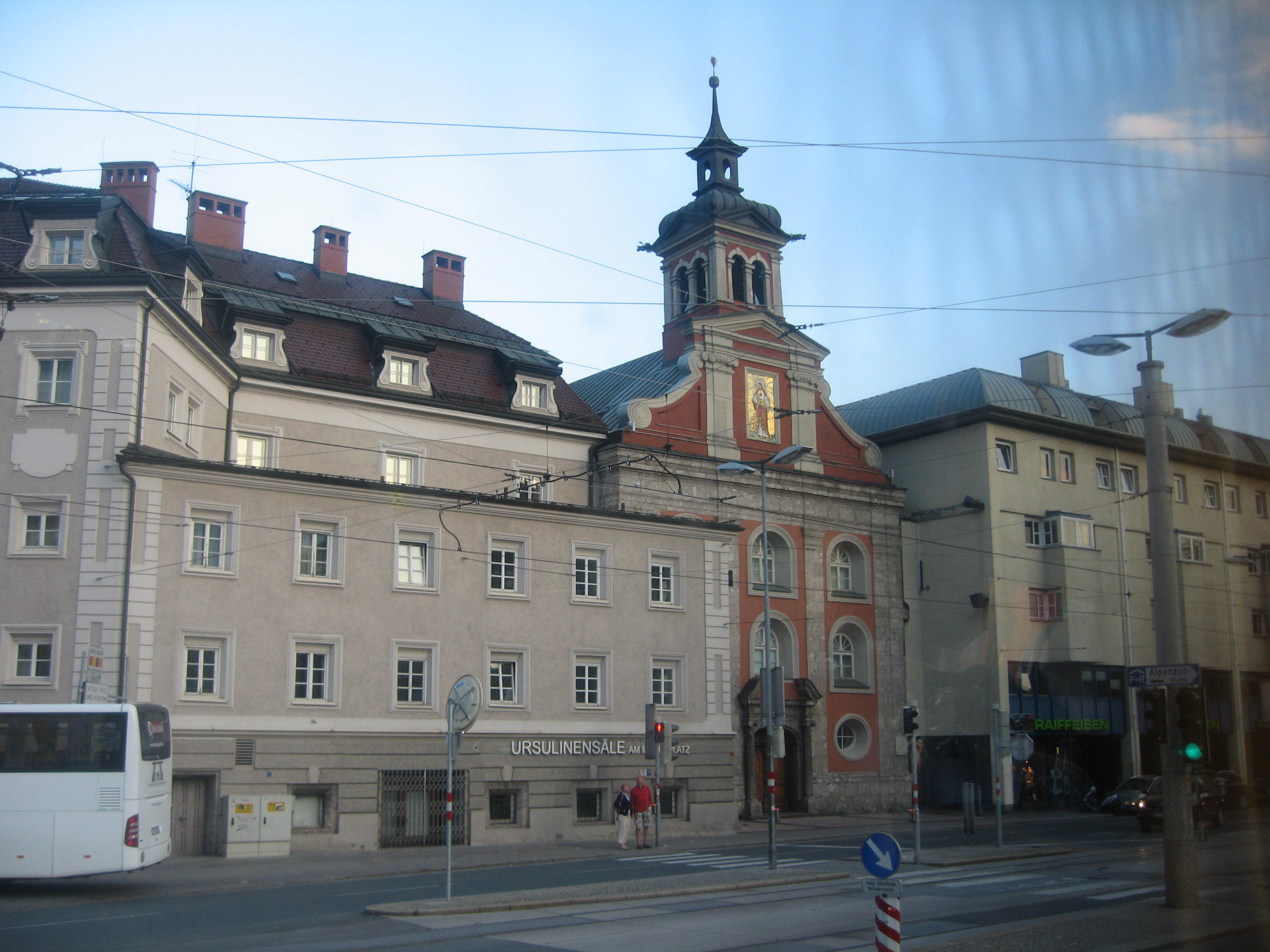 Ursulinenkirche Innsbruck This media shows the remarkable cultural object in the Austrian state of Tyrol listed by the Tyrolean Art Cadastre with the ID 118269. (on tirisMaps, on tirisdienste.at, pdf, more images on Commons) This media shows the remarkable cultural object in the Austrian state of Tyrol listed by the Tyrolean Art Cadastre with the ID 118270. (on tirisMaps, on tirisdienste.at, pdf, more images on Commons)